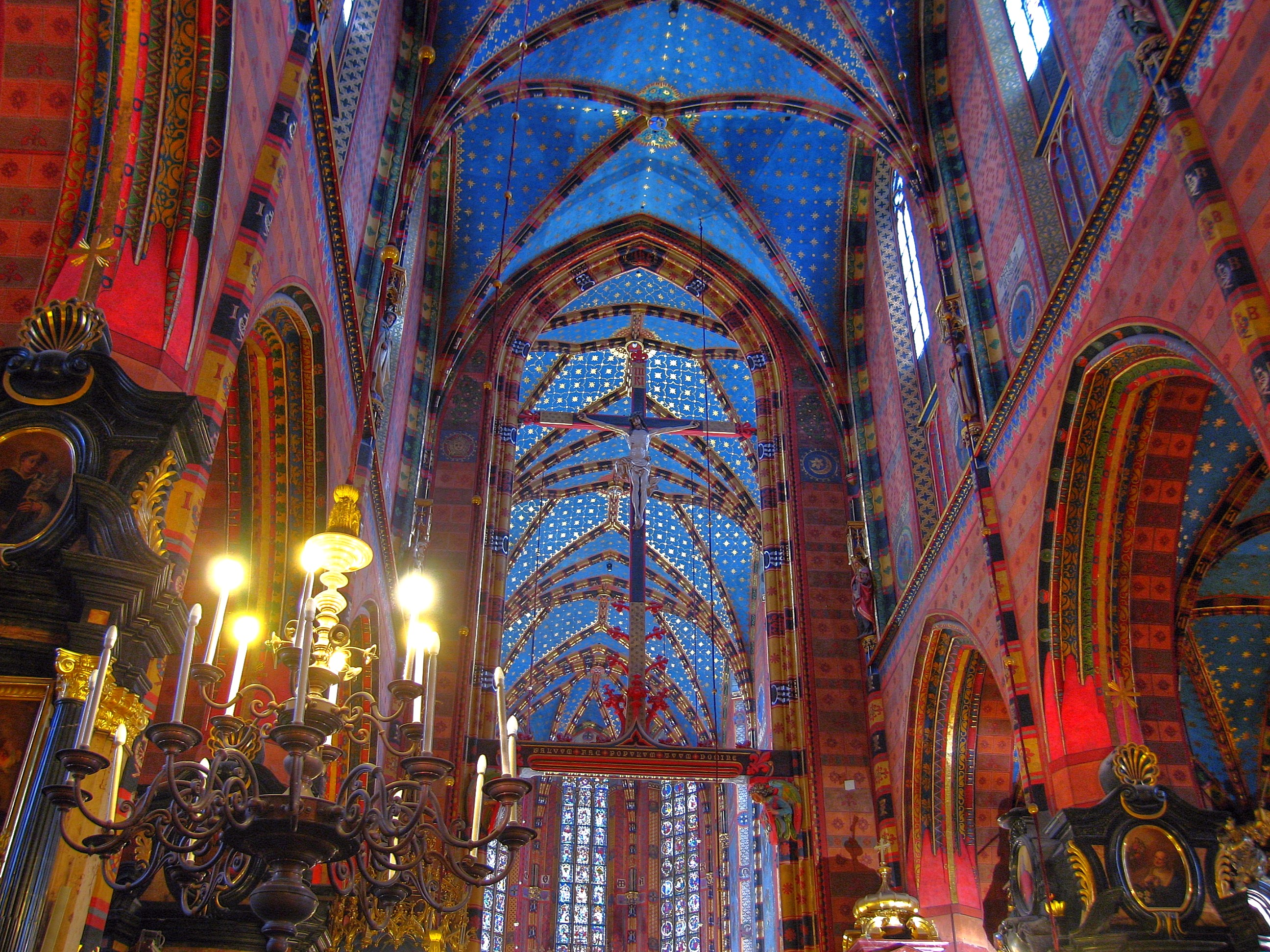 Interior of St. Mary's Basilica in Cracow - photo made in HDR technique